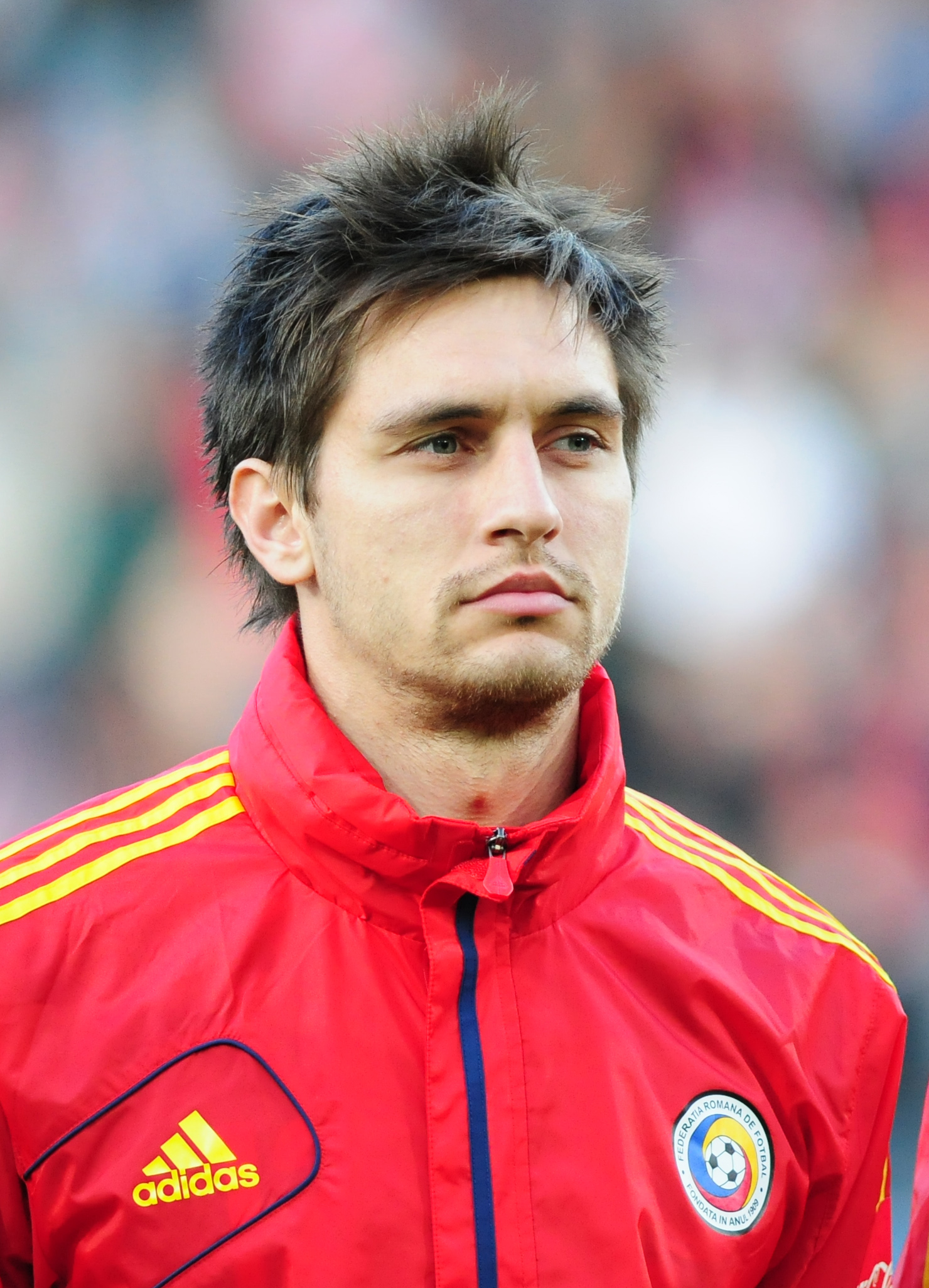 Exhibition game Austria vs. Romania at 5st. June 2012